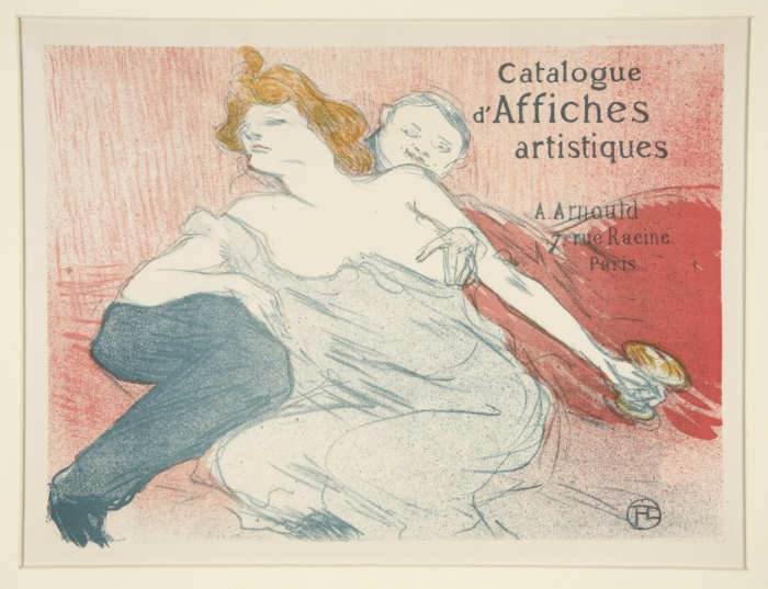 "Debauche (Deuxieme Planche) [second version] 1896," lithograph in colors, by the French artist Henri de Toulouse-Lautrec. 9 5/16 in. x 12 11/16 in. Yale University Art Gallery, Mr. & Mrs. Carter H. Harrison collection. Courtesy of Yale University, New Haven, Conn.